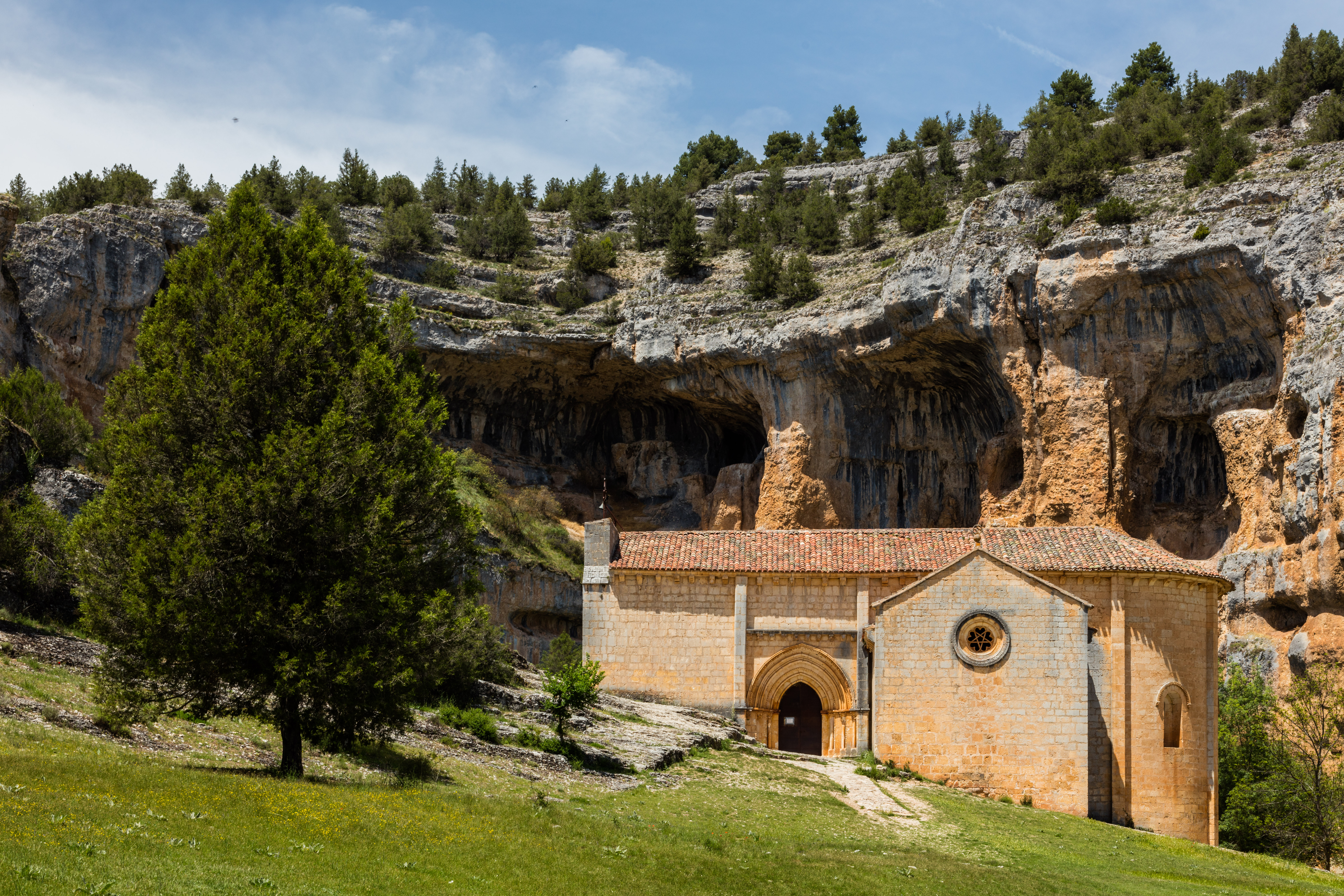 Hermitage of St Bartholomew, Canyon of the Lobos River Natural Park, Soria, Spain